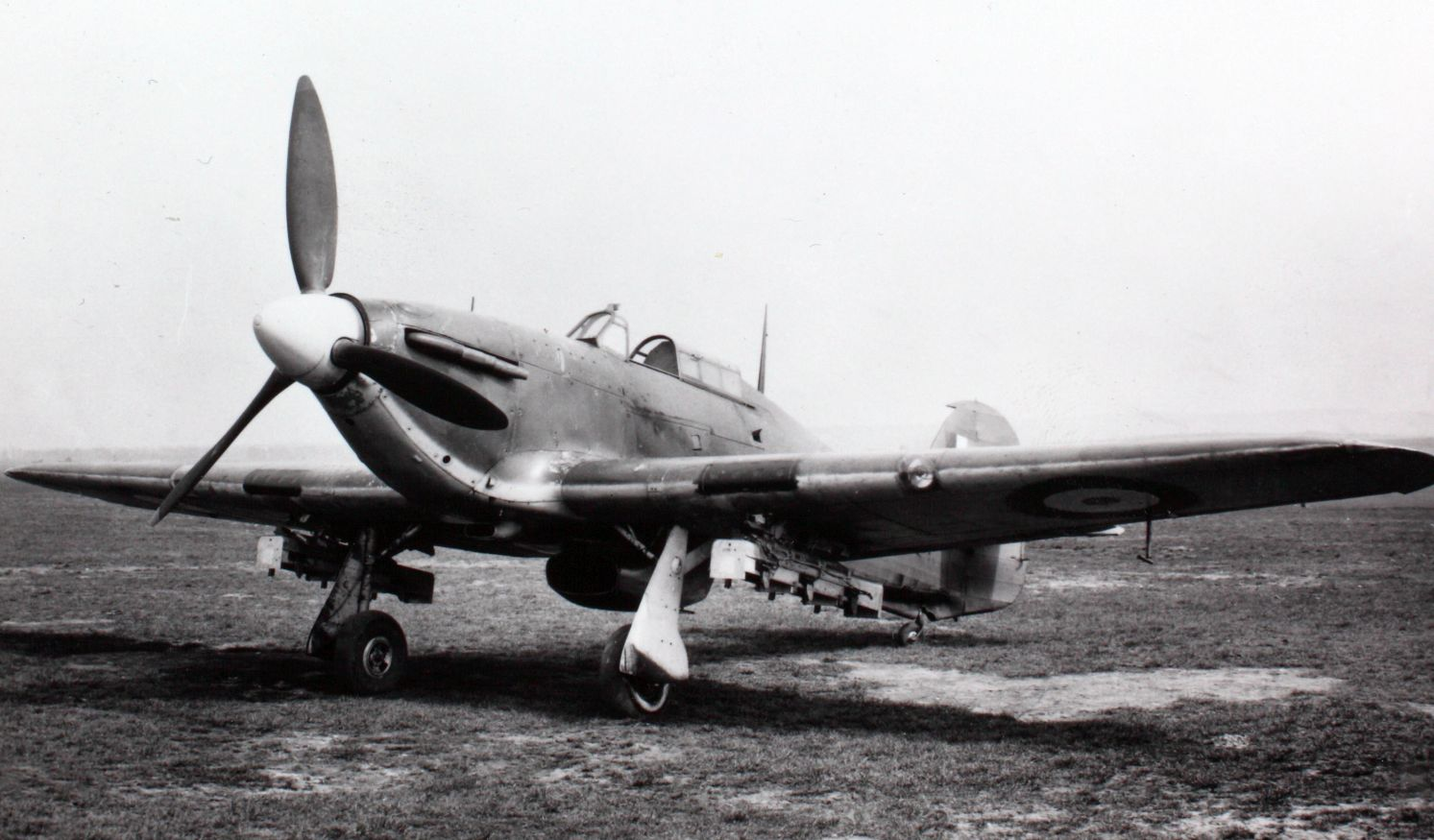 Image from the Charles Daniels Photo Collection album "British Aircraft." SOURCE INSTITUTION: San Diego Air and Space Museum Archive